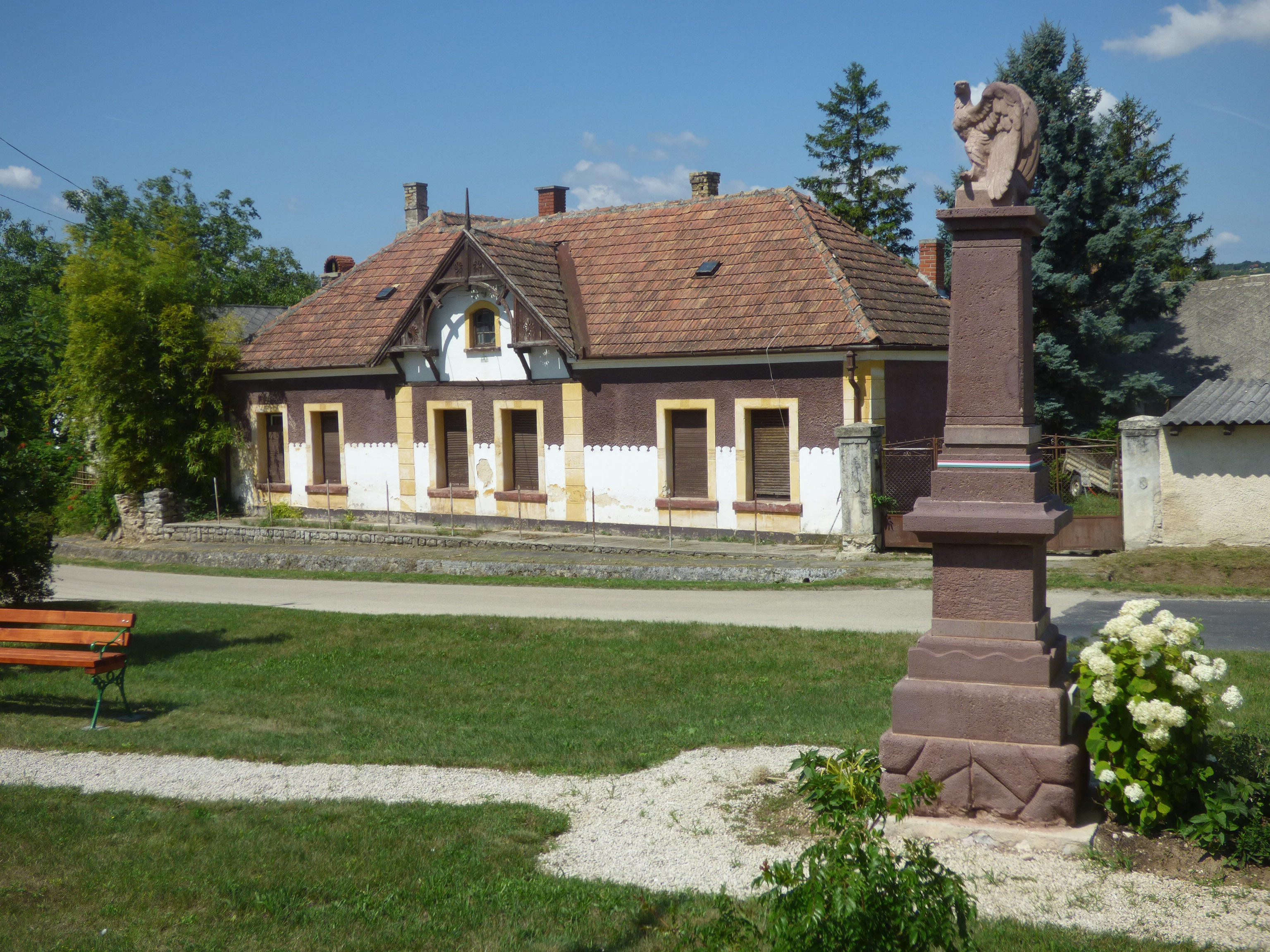 Nagypécsely központja a I. világháborús hősi emlékművel (Avatás 1931, vörös homokkőből készült, fehér márványtáblákkal kiegészítve. A tetején álló turul, műkőből készült, valószínűleg utólag kerülhetett rá.)[1]